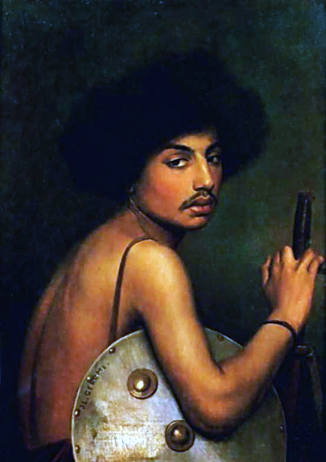 Bisharin Warrior by Jean-Léon Gérôme, 1872, oil on canvas, 29.5 x 21.9 cm